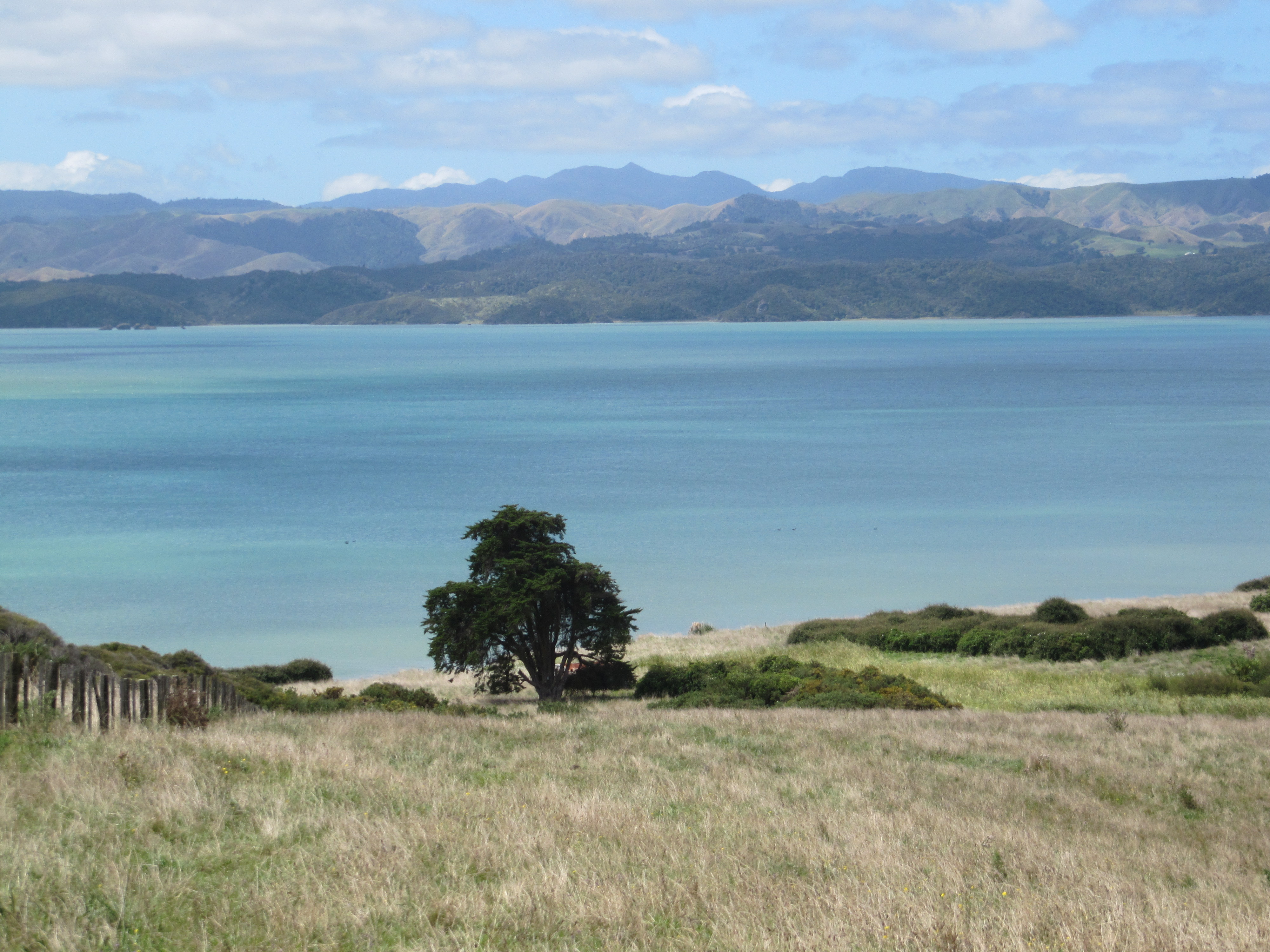 Aotea Harbour and Pirongia from Raoraokauere